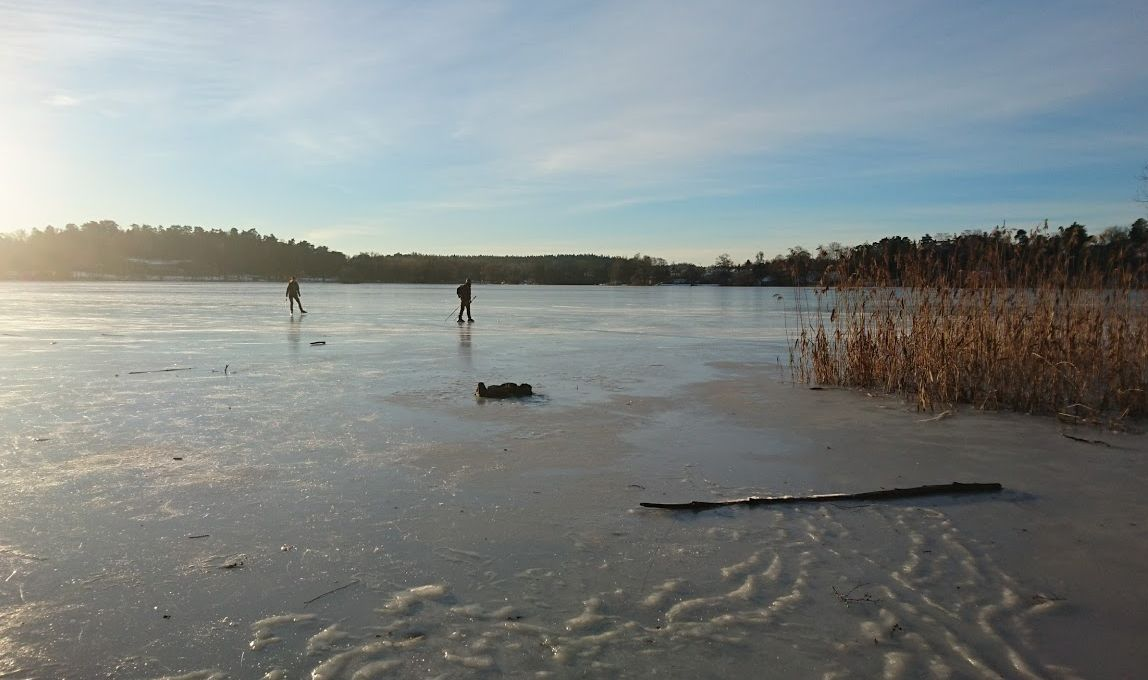 Ice skaters on a frozen Norvikken lake, Sollentuna, outside Stockholm.